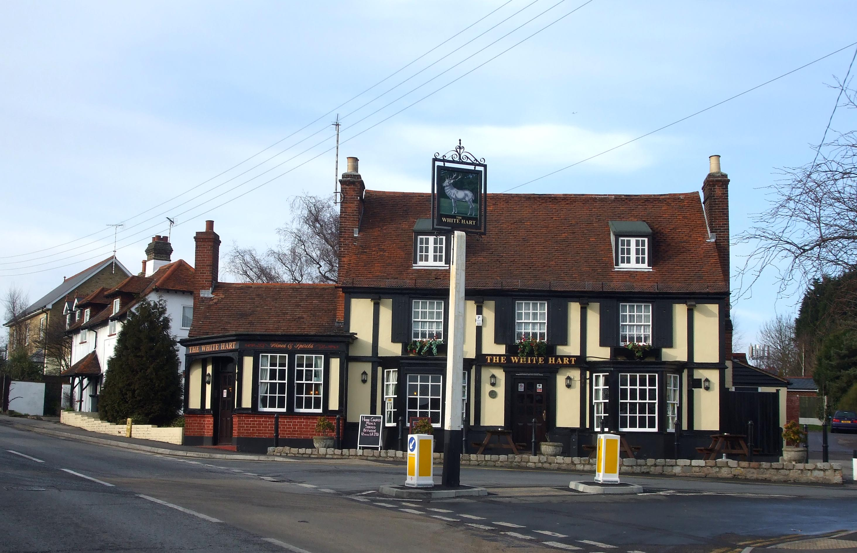 white hart public house, hockley,essex.